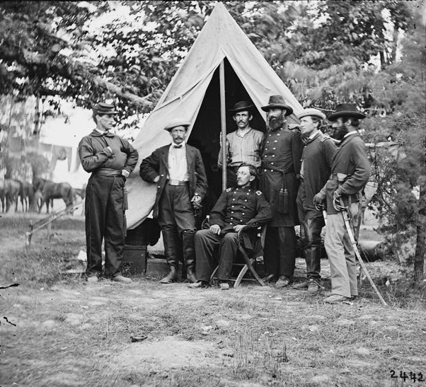 Colonel George H. Chapman (seated) and his staff, 3rd Regiment Indiana Cavalry (East Wing), on duty with the Army of the Potomac during the American Civil War, 1861-1865. Forms part of the Civil War plate glass negative collection of the Library of Congress Prints and Photographs Division.